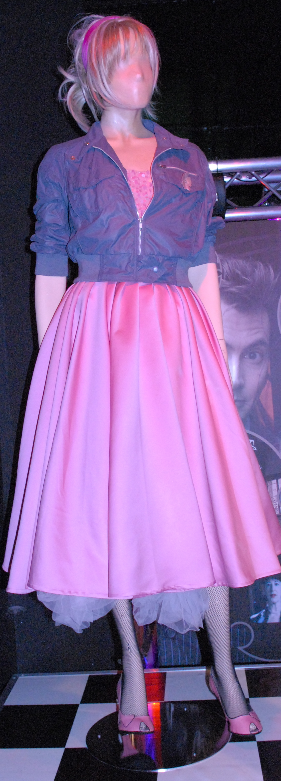 DSC_0072_2 Doctor Who Experience